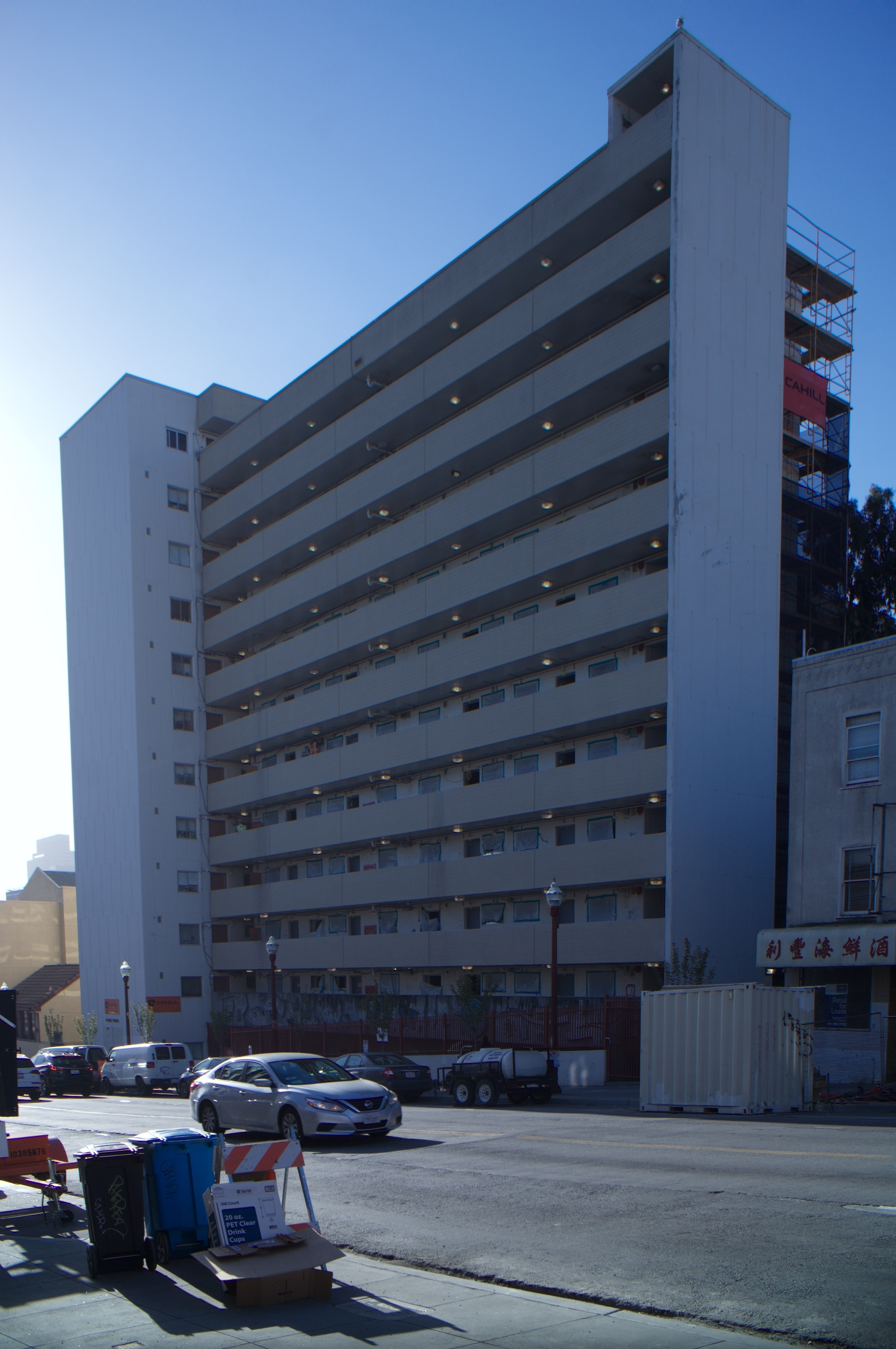 A bit overshifted again.